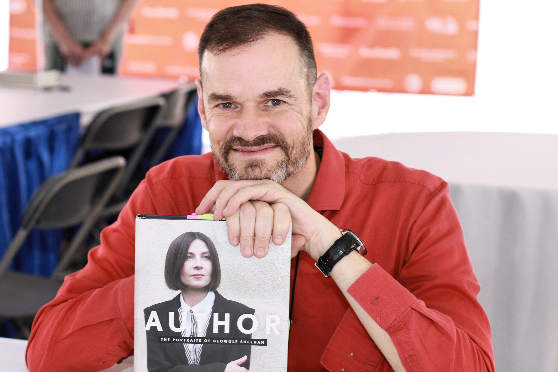 Photographer Beowulf Sheehan at the 2018 Texas Book Festival in Austin, Texas, United States.